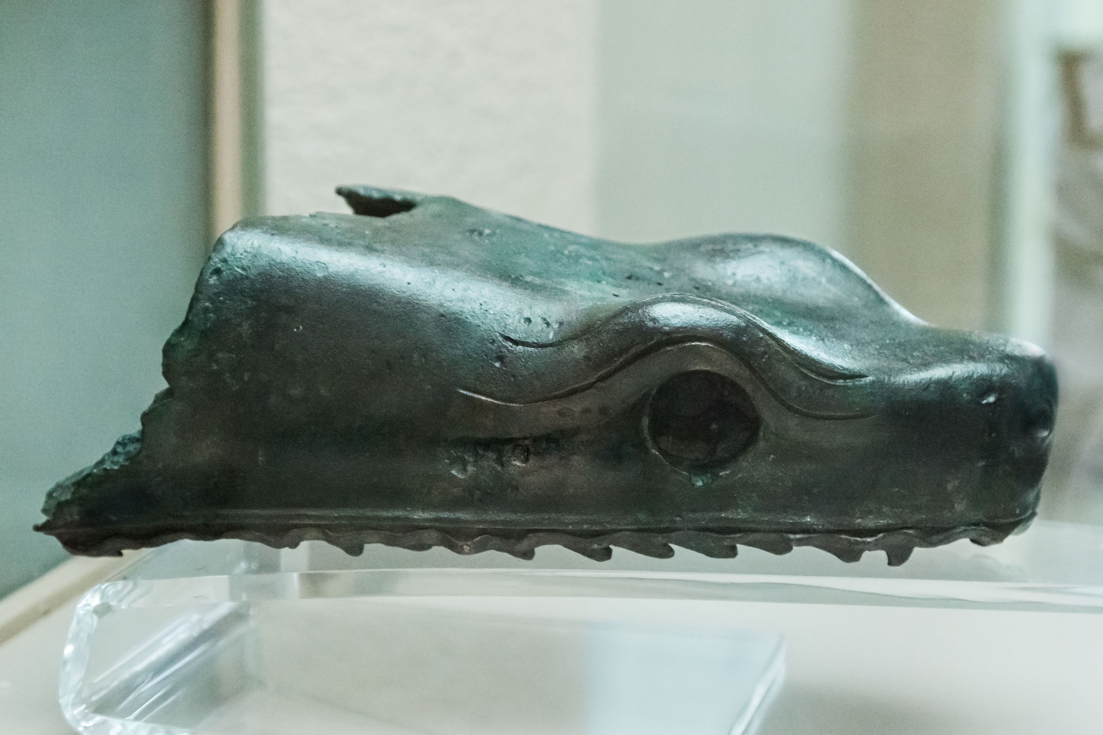 Fragment of one of the serpents’ head from the Serpentine Column built to commemorate the Greek victory at Plataea in 479 BC, Archaeological Museum of Istanbul, Turkey.